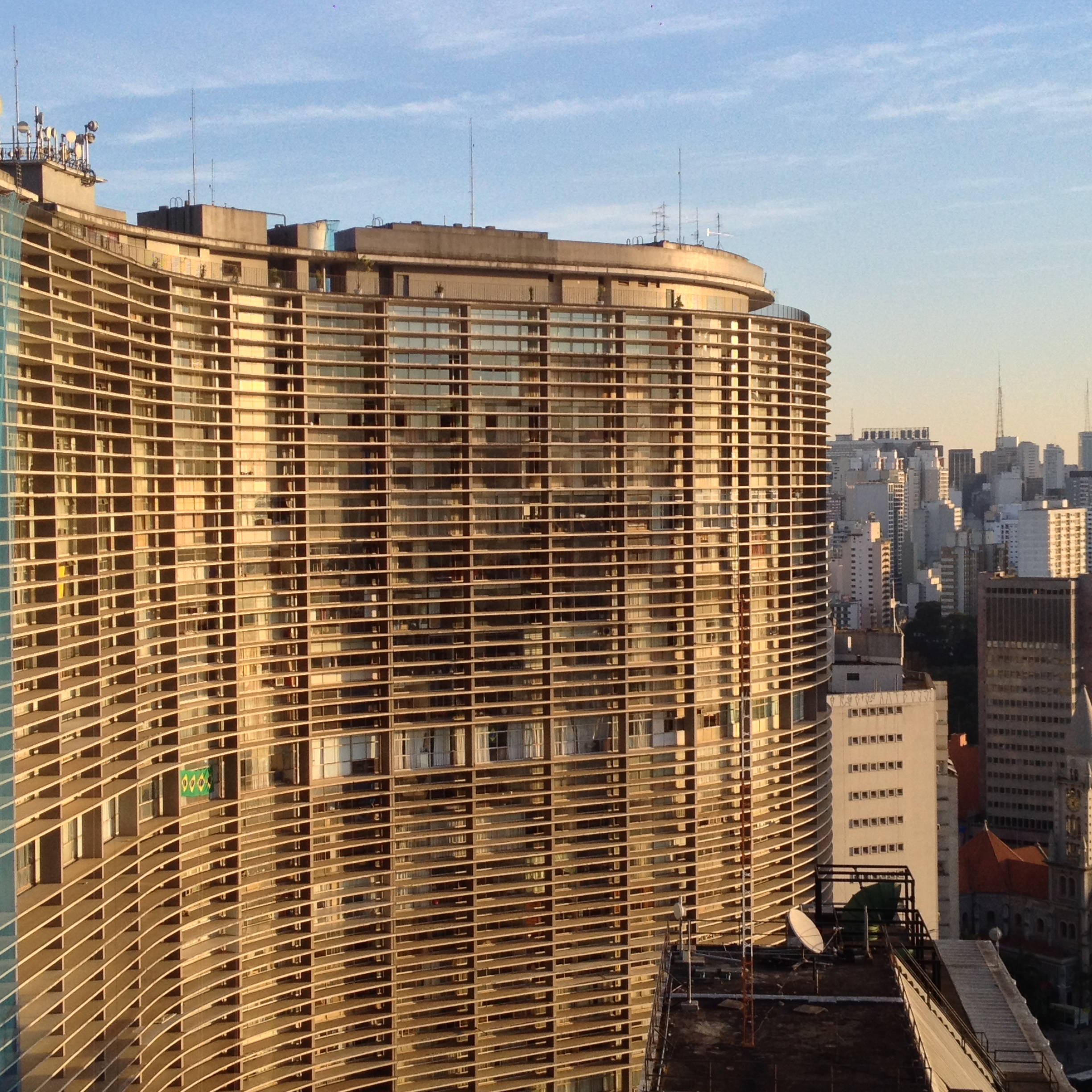 Copan building, Sao Paulo